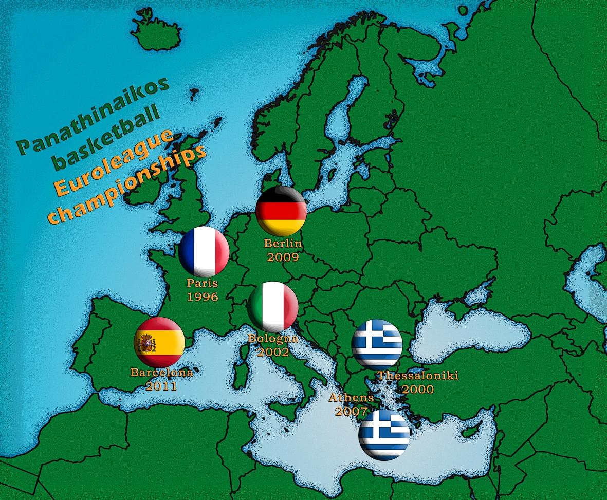 Panathinaikos basketball euroleague titles map